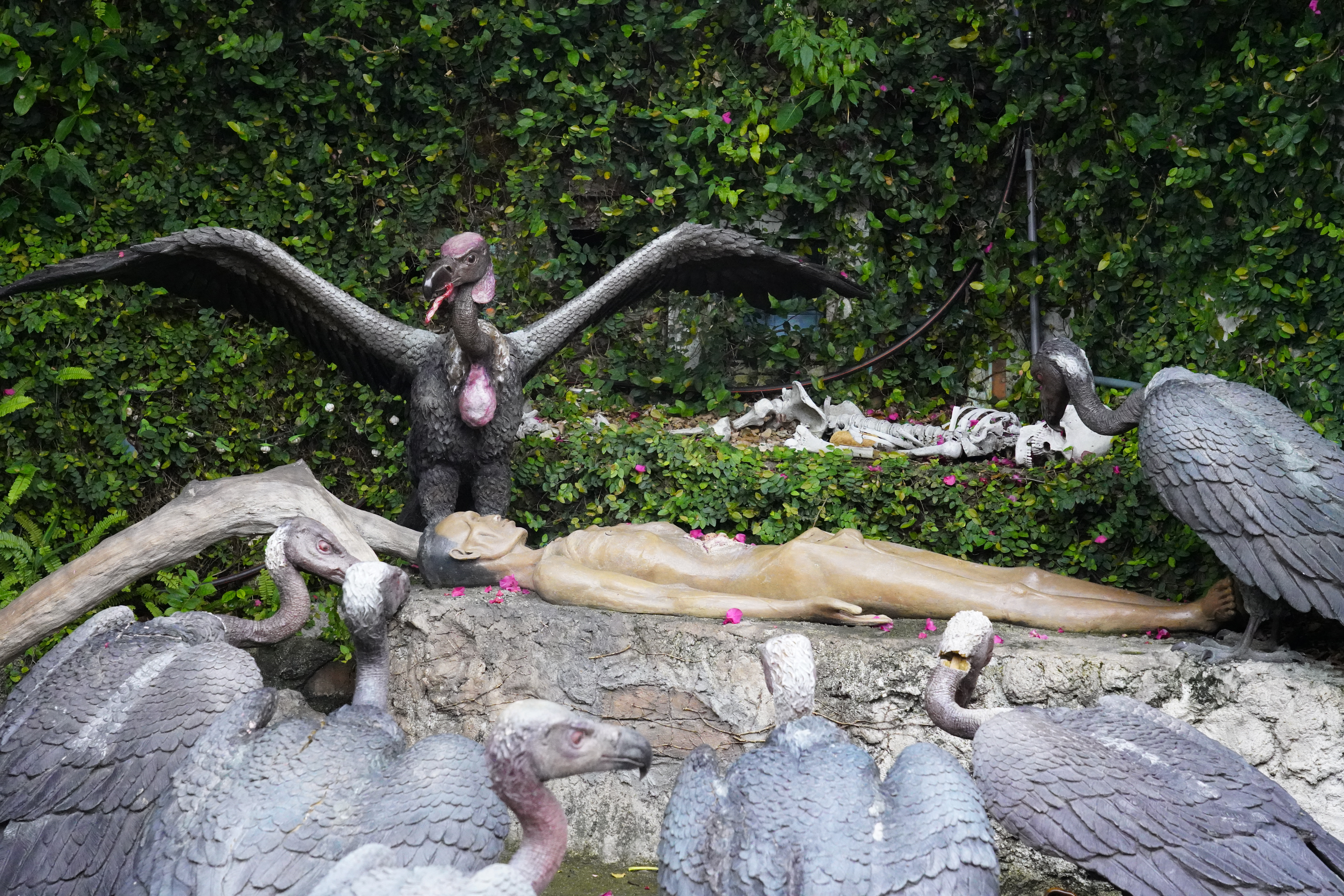 Thailand